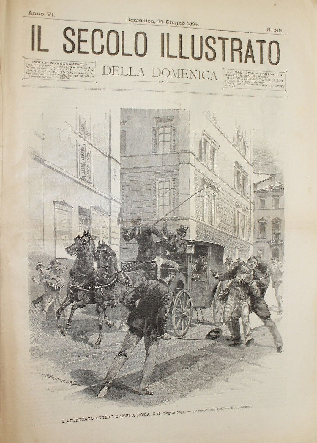 Assassination attempt on the Prime Minister Francesco Crispi in Rome June 16, 1894.